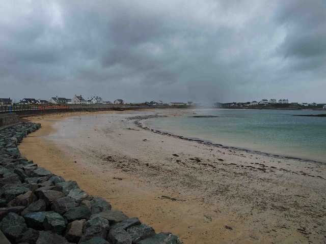 Trearddur bay Wind and rain splattering the camera lens.